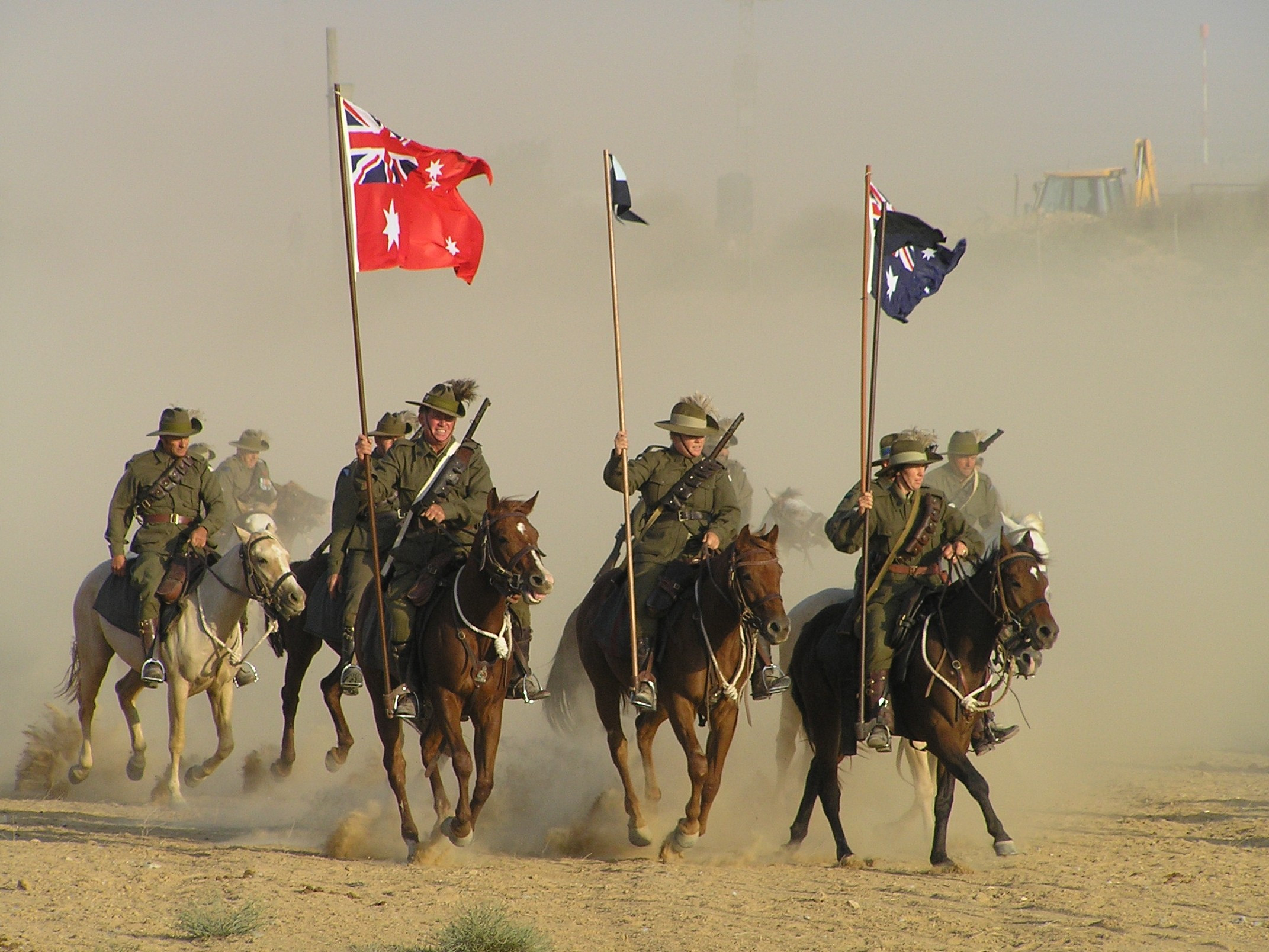 90th anniversary of the WW1 Battle of Beersheba: Re-enactment of the Australian Lighthorse charge